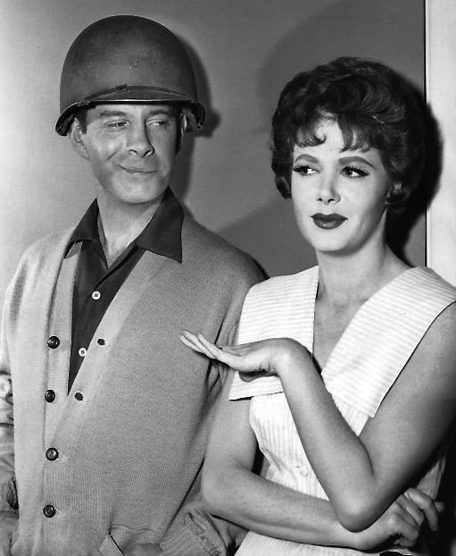 Photo of Harry Morgan and Cara Williams as Pete and Gladys Porter from the television program Pete and Gladys.